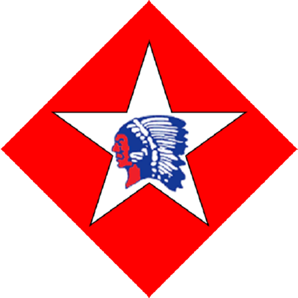 Squadron insignia for 1st Battalion 6th Marines Category:United States Marine Corps images